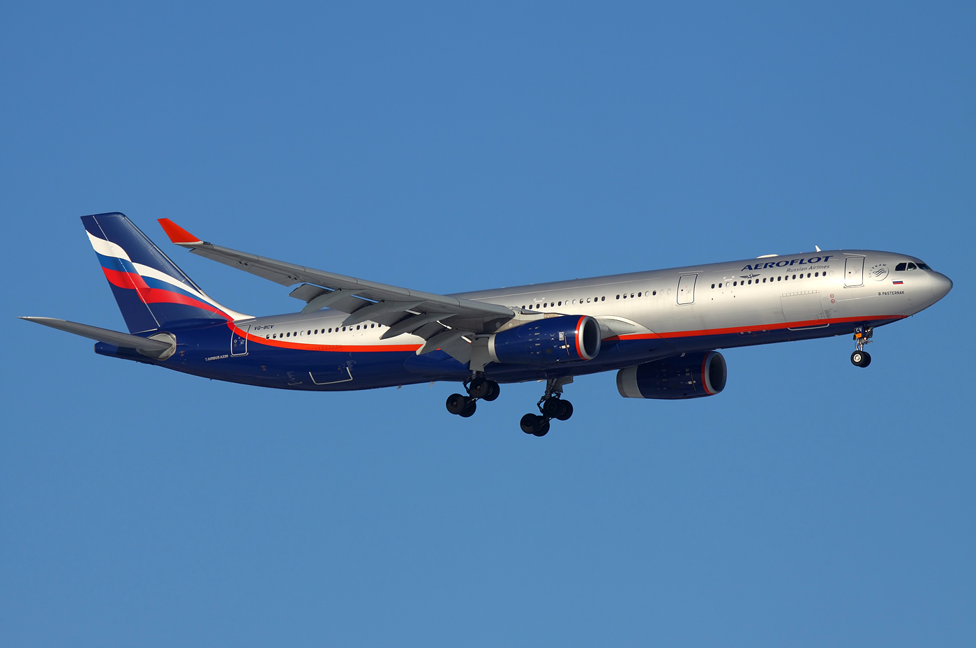 An Aeroflot Airbus A330-343X on approach to Sheremetyevo Airport (SVO / UUEE)